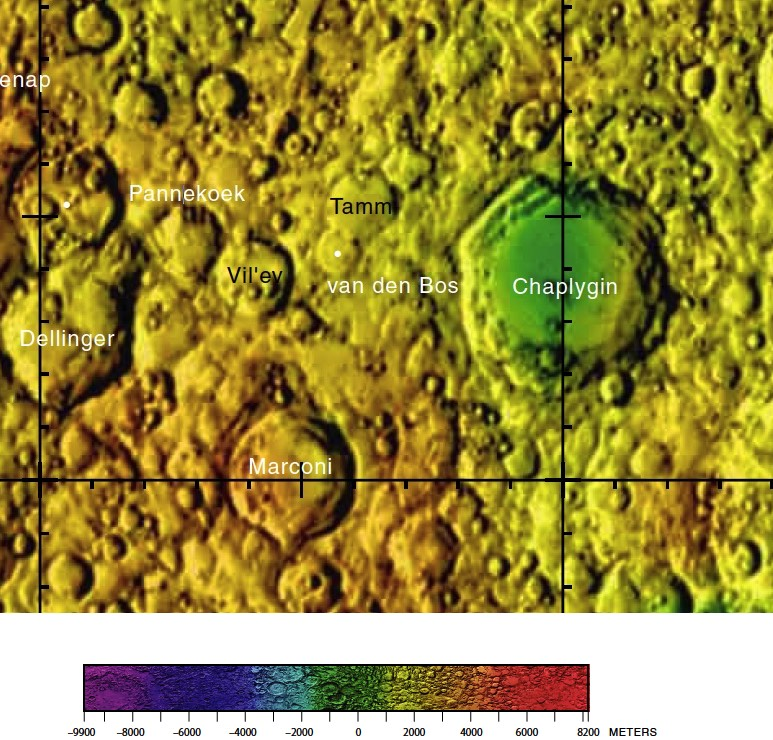 Part of the USGS far side map.